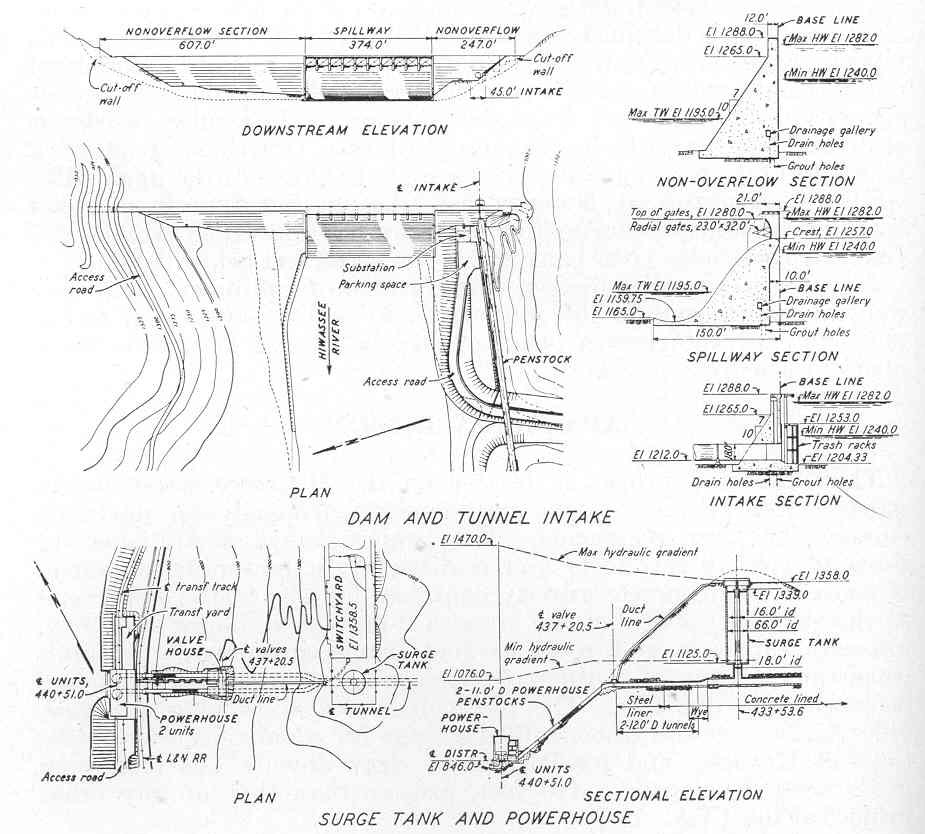 TVA's design plan for Apalachia Dam, which was built on the Hiwassee River in Cherokee County, North Carolina, USA, in the early 1940s.